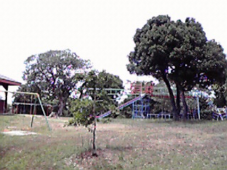 This is a scene of Tomoyama park in Shima, Mie, Japan.